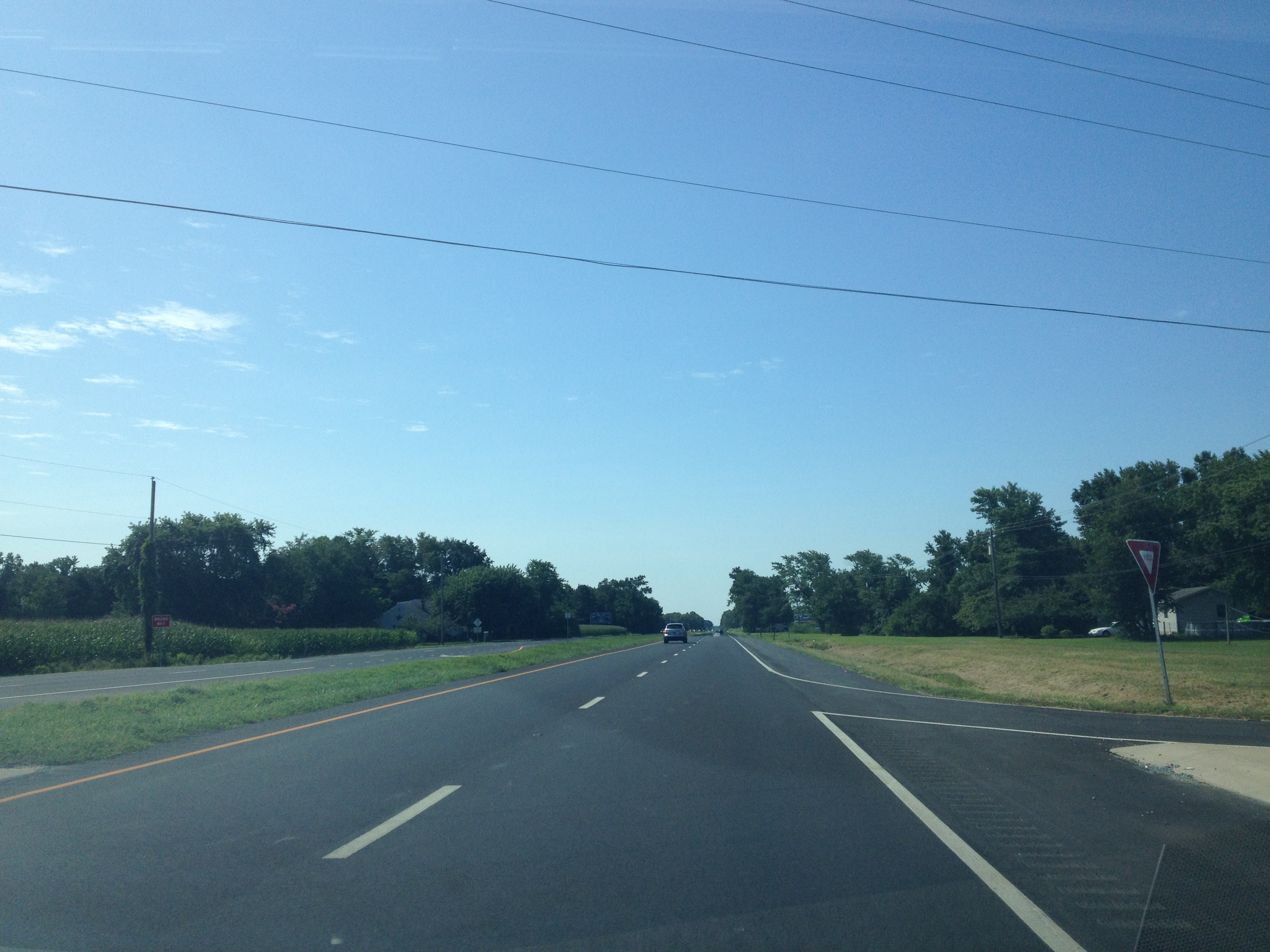 Southbound U.S. Route 113 (DuPont Boulevard) between Frankford and Selbyville, Delaware.